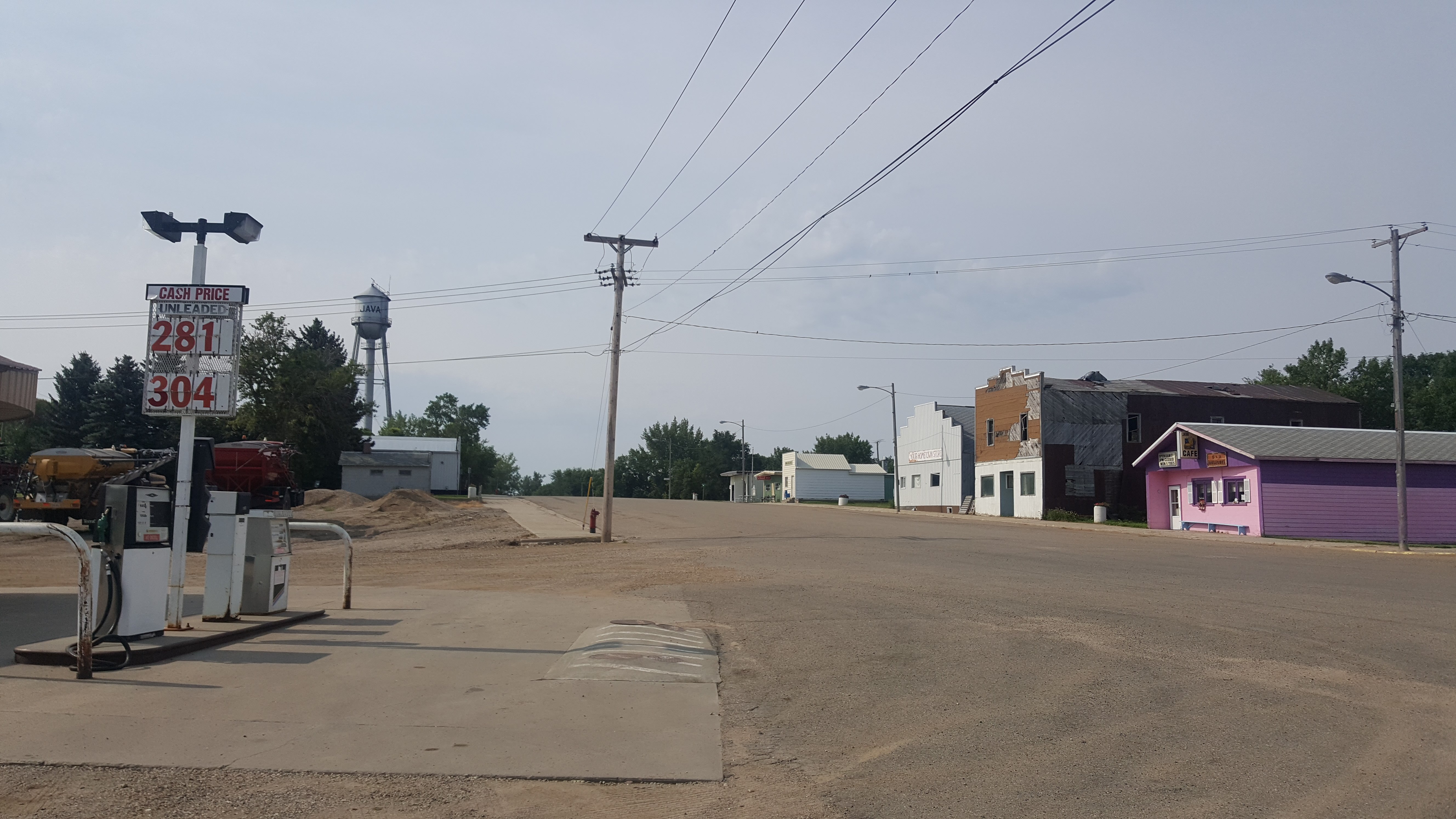 Main Street, Java; photo taken August 5th, 2018.